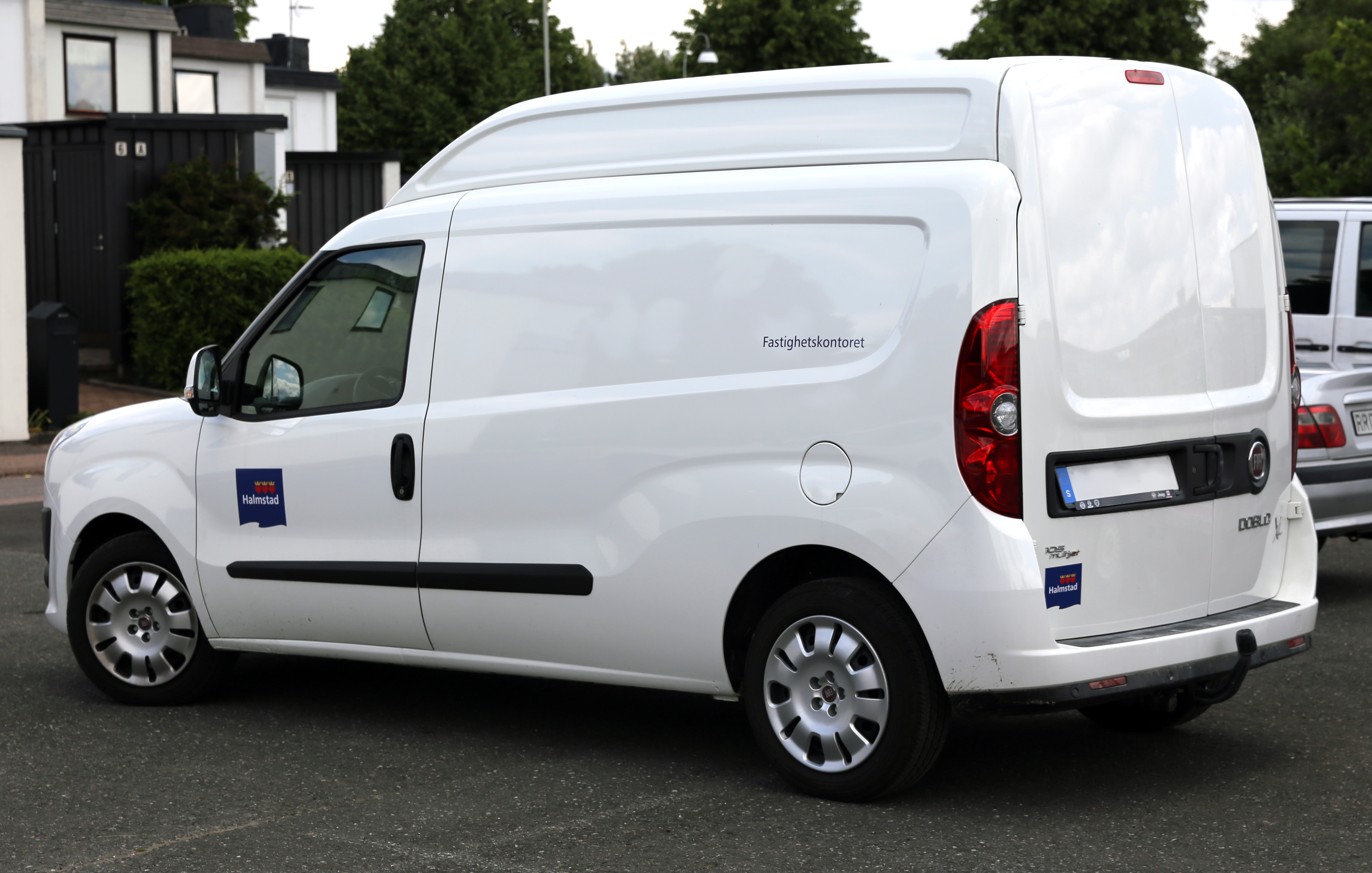 2012 Fiat Doblò Cargo XL 105 Multijet (1.6 diesel), tipo 263. Belongs to Fastighetskontoret (local government agency), Halmstad.